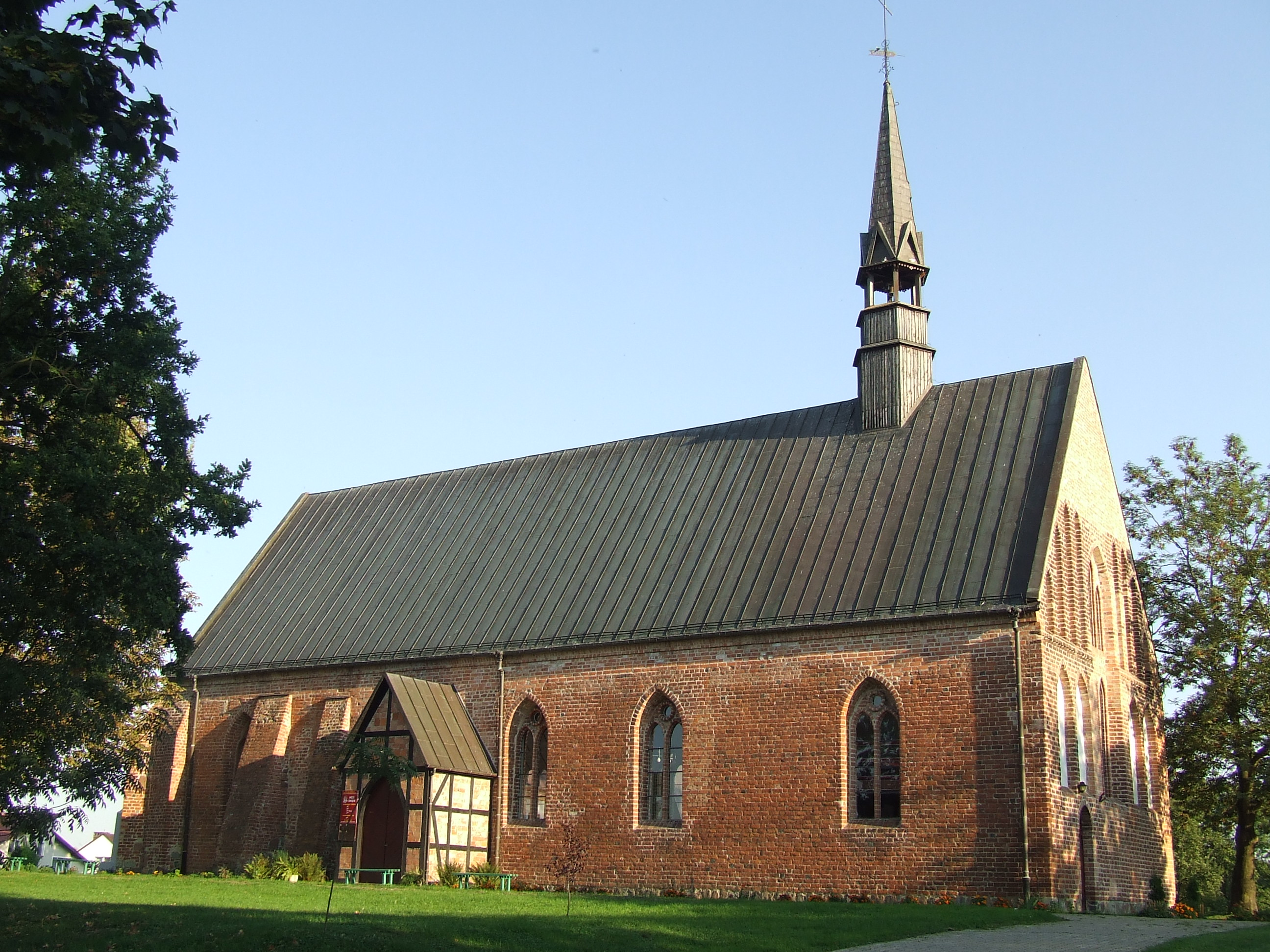 Our Lady of Sorrows church in Pyrzyce, Poland